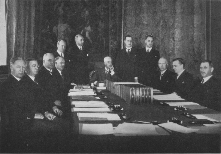 Cabinet of Axel Pehrsson-Bramstorp 1936